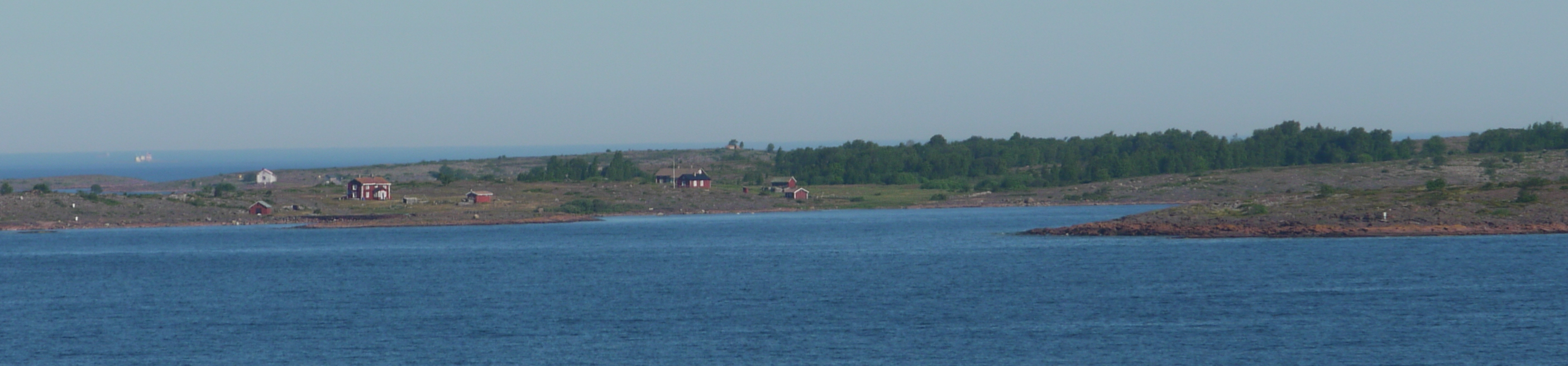 The isle of Signilskär, west of Åland, seen from the ferry from Berghamn (Eckerö, Åland) to Grisslehamn (Sweden).